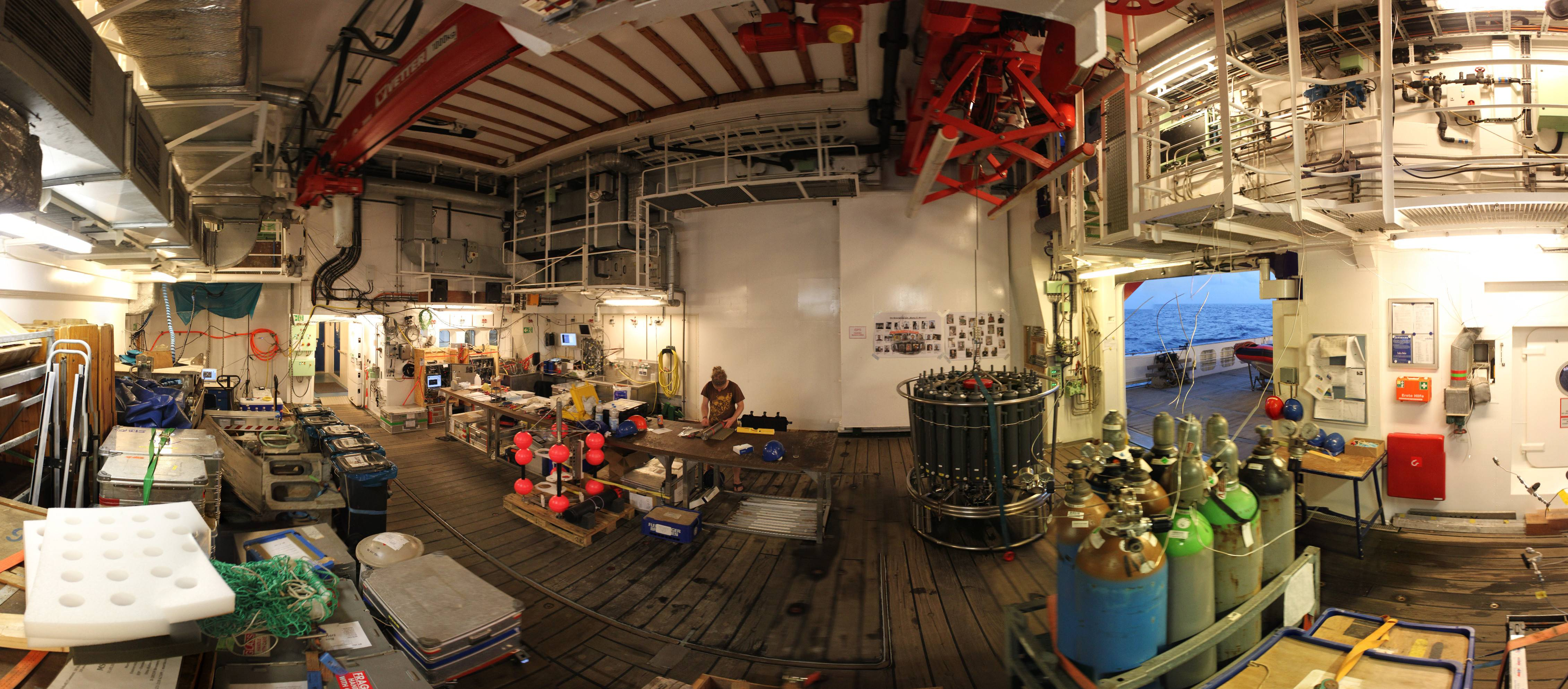 Hangar of RV Maria S Merian